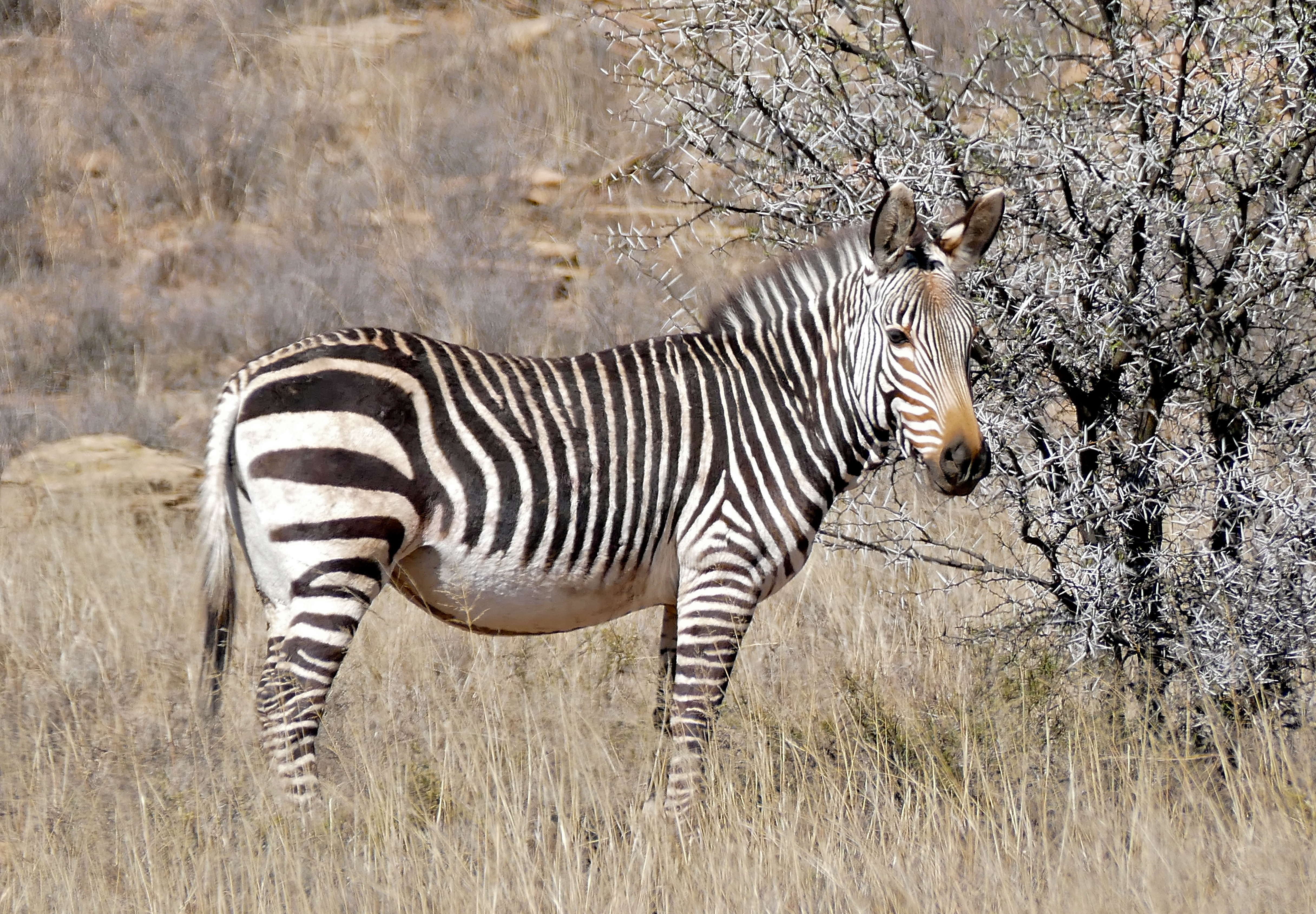 Link Road, Mountain Zebra NP, Eastern Cape, SOUTH AFRICA